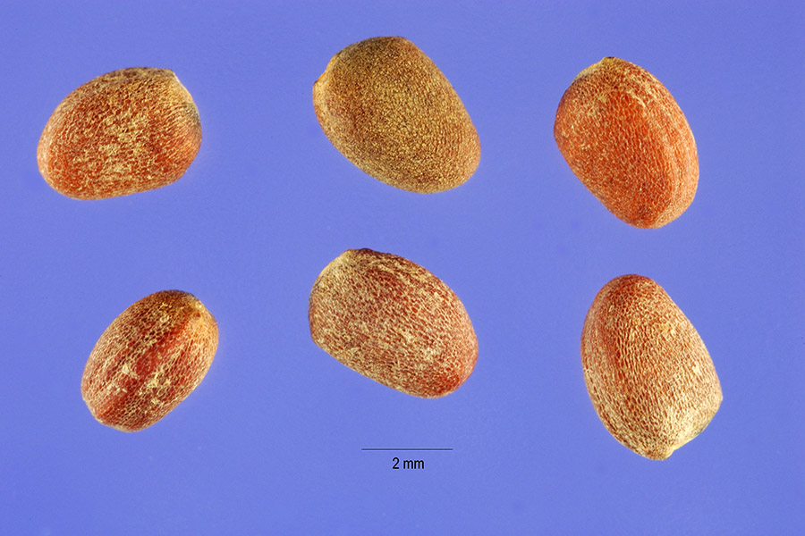 Seeds of Raphanus sativus